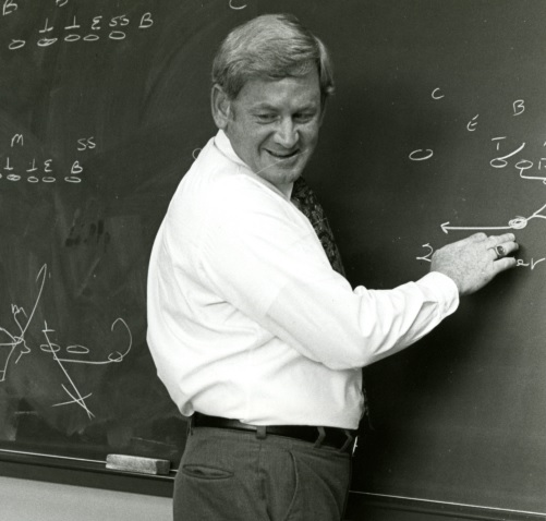 Title: "Head football coach Ray Alborn demonstrates a play, Rice University" Abstract: "Ray Alborn played football for Rice University from 1959 to 1962 and served as head football coach from 1978 to 1983."